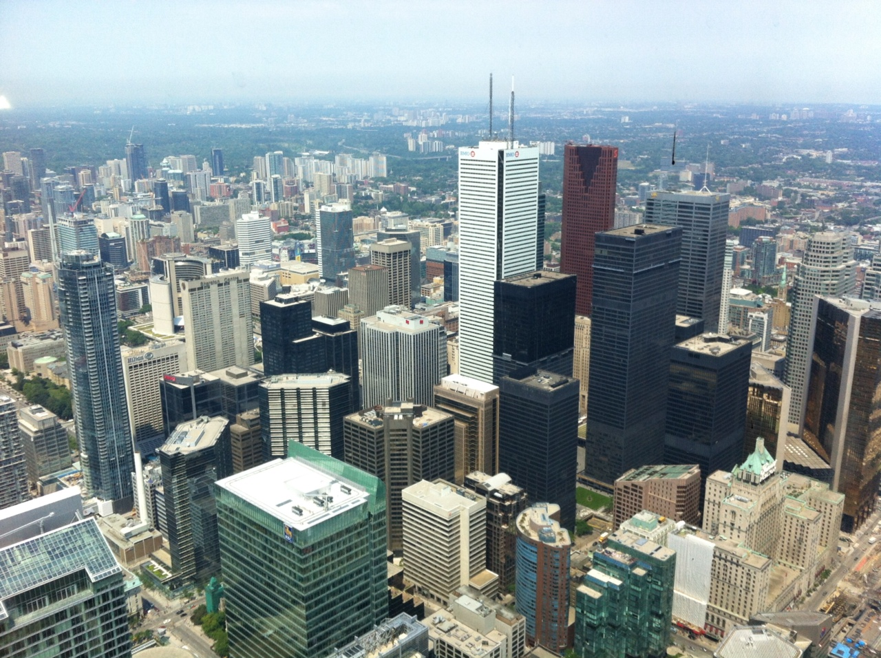 Downtown Toronto From CN Tower